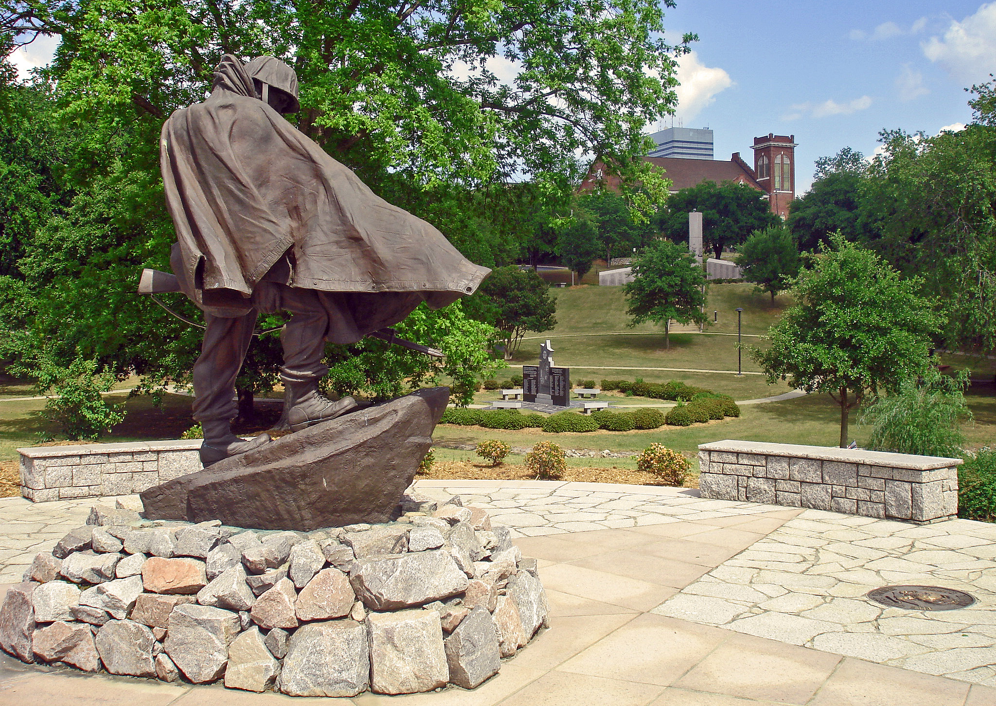 Memorial Park, downtown Columbia, South Carolina, USA